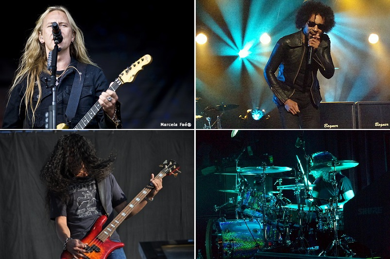 Jerry Cantrell, William DuVall, Mike Inez and Sean Kinney of Alice in Chains